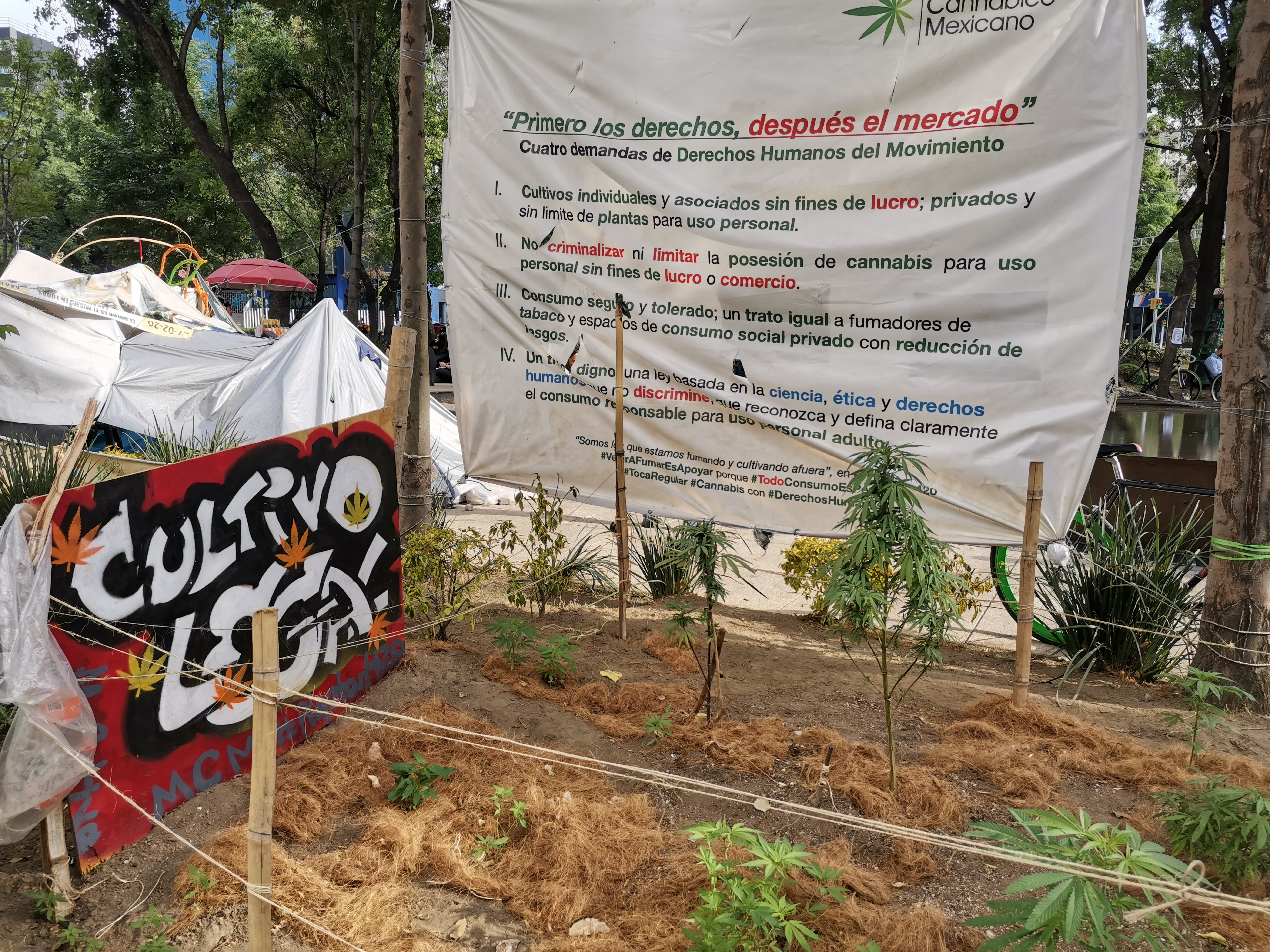 Cannabis sativa plantations. Cannabis camp in front of the Mexican Senate, Mexico City.